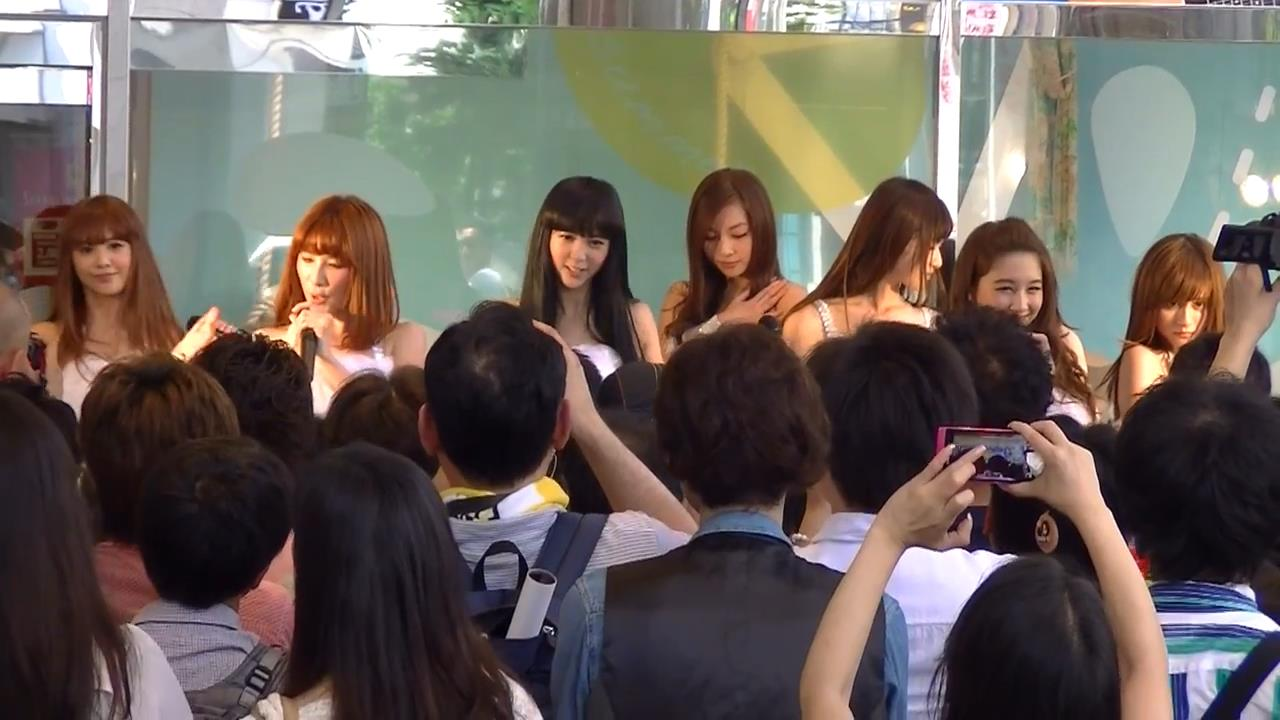 Weather Girls perform at Marui City, Shibuya, Tokyo, 2013-07-07.